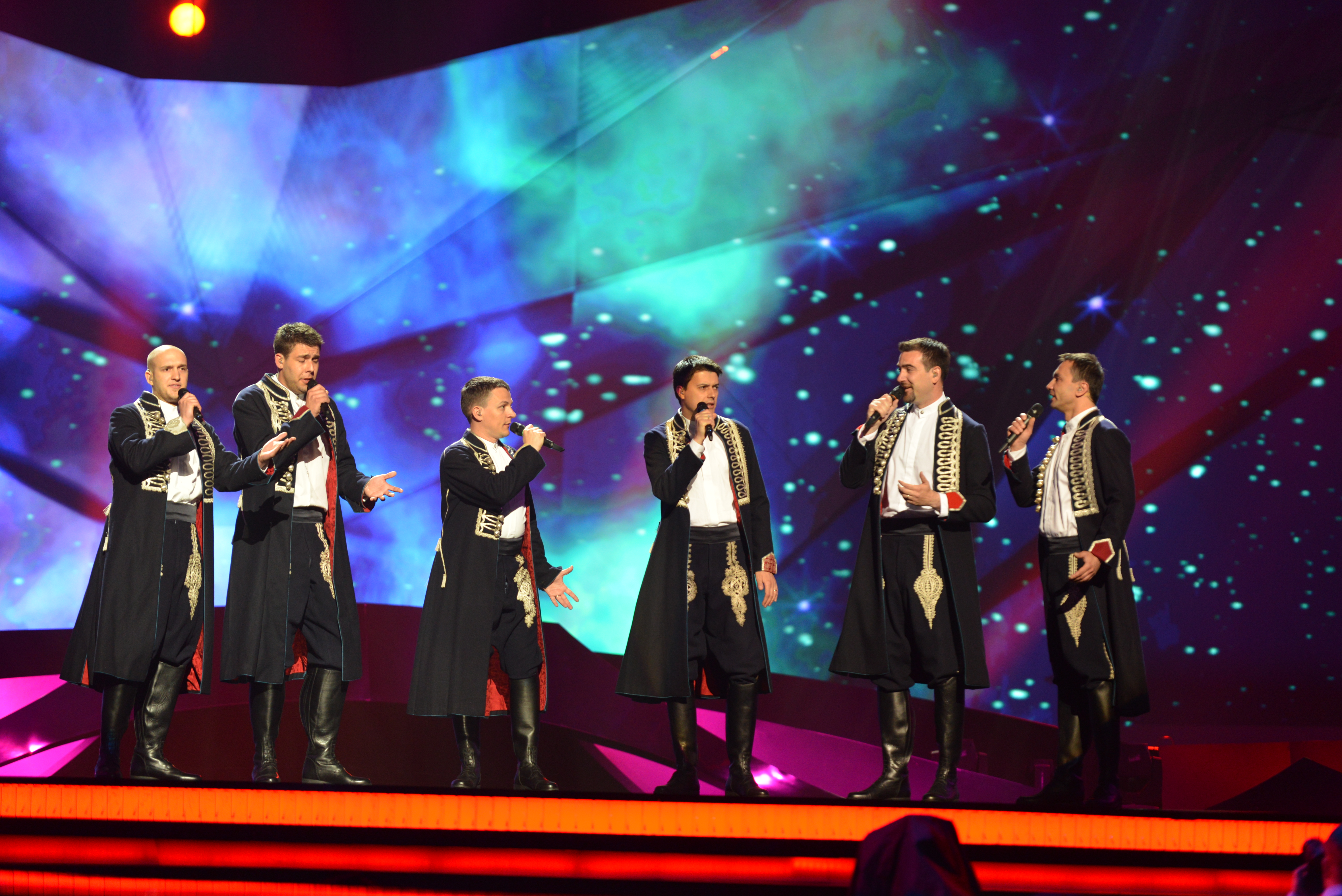 Klapa s Mora representing Croatia with the song "Mižerja" during the first dress rehearsal of the first semi final of the Eurovision Song Contest 2013 in Malmö. (Help translate this text)